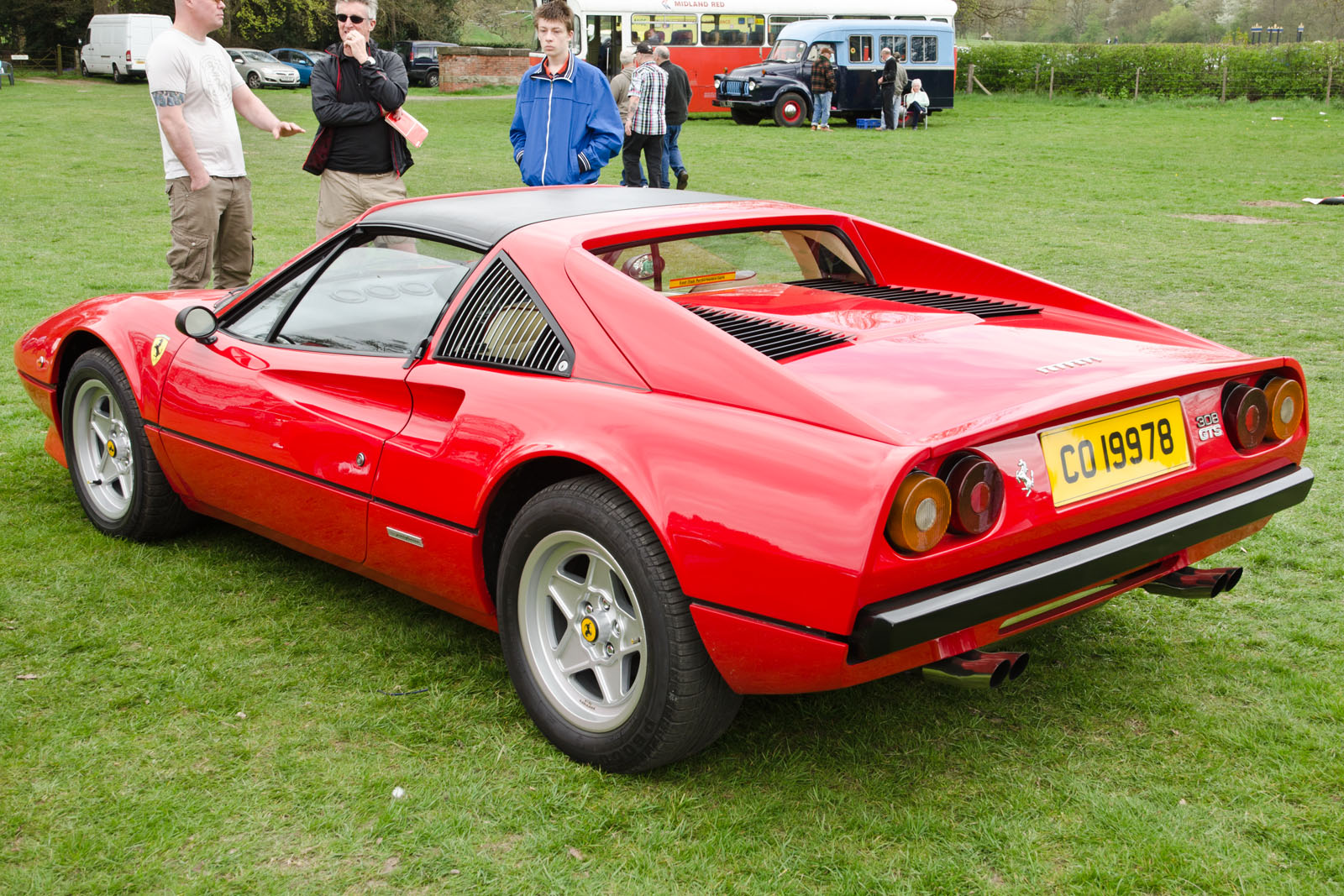 Catton Hall Classic Car Show 05/05/2013